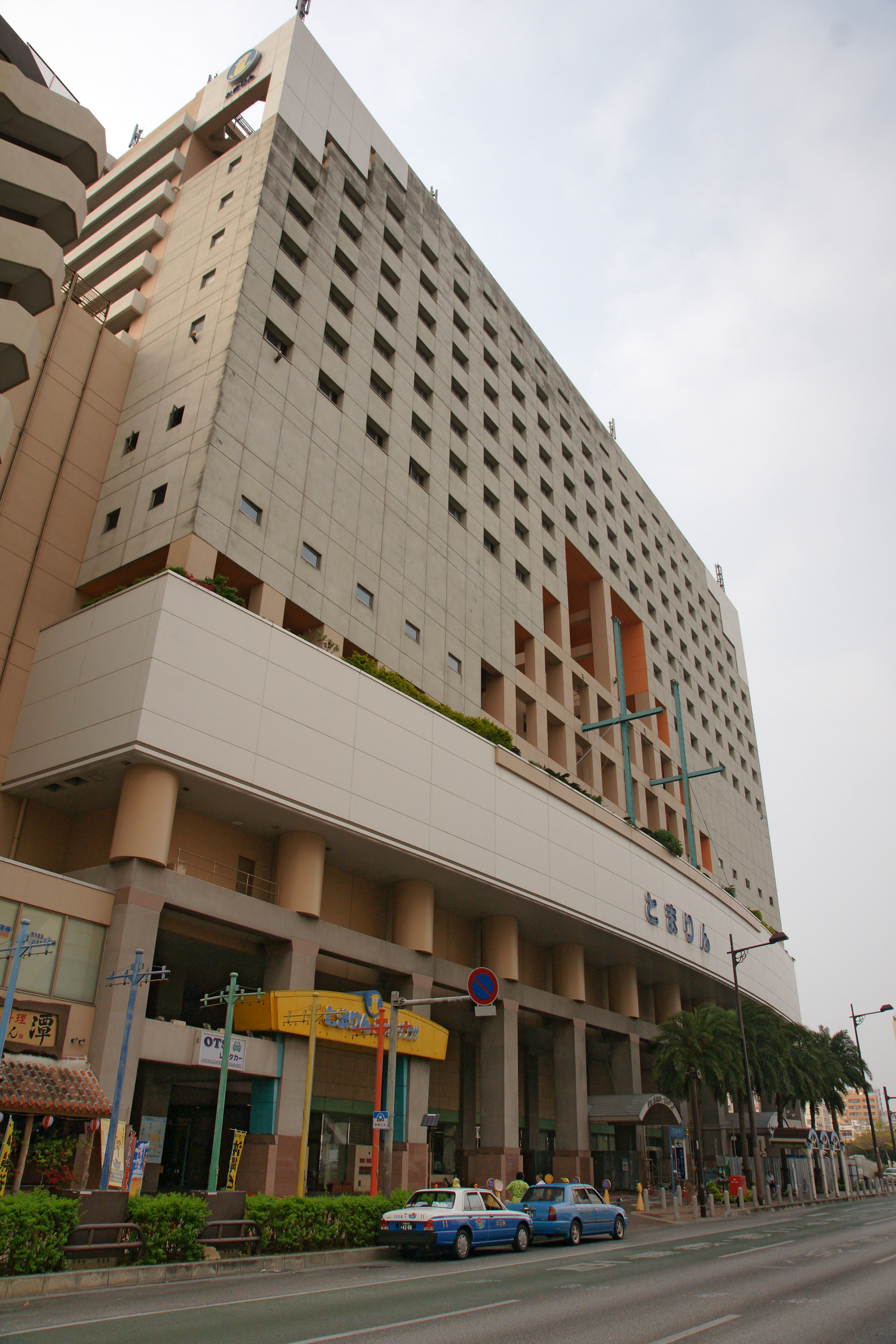 Tomari Wharf of Naha Port, Naha City, Okinawa Prefecture